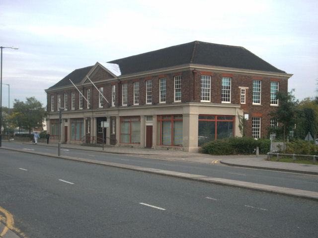 A former office building in Aylesbury, Buckinghamshire